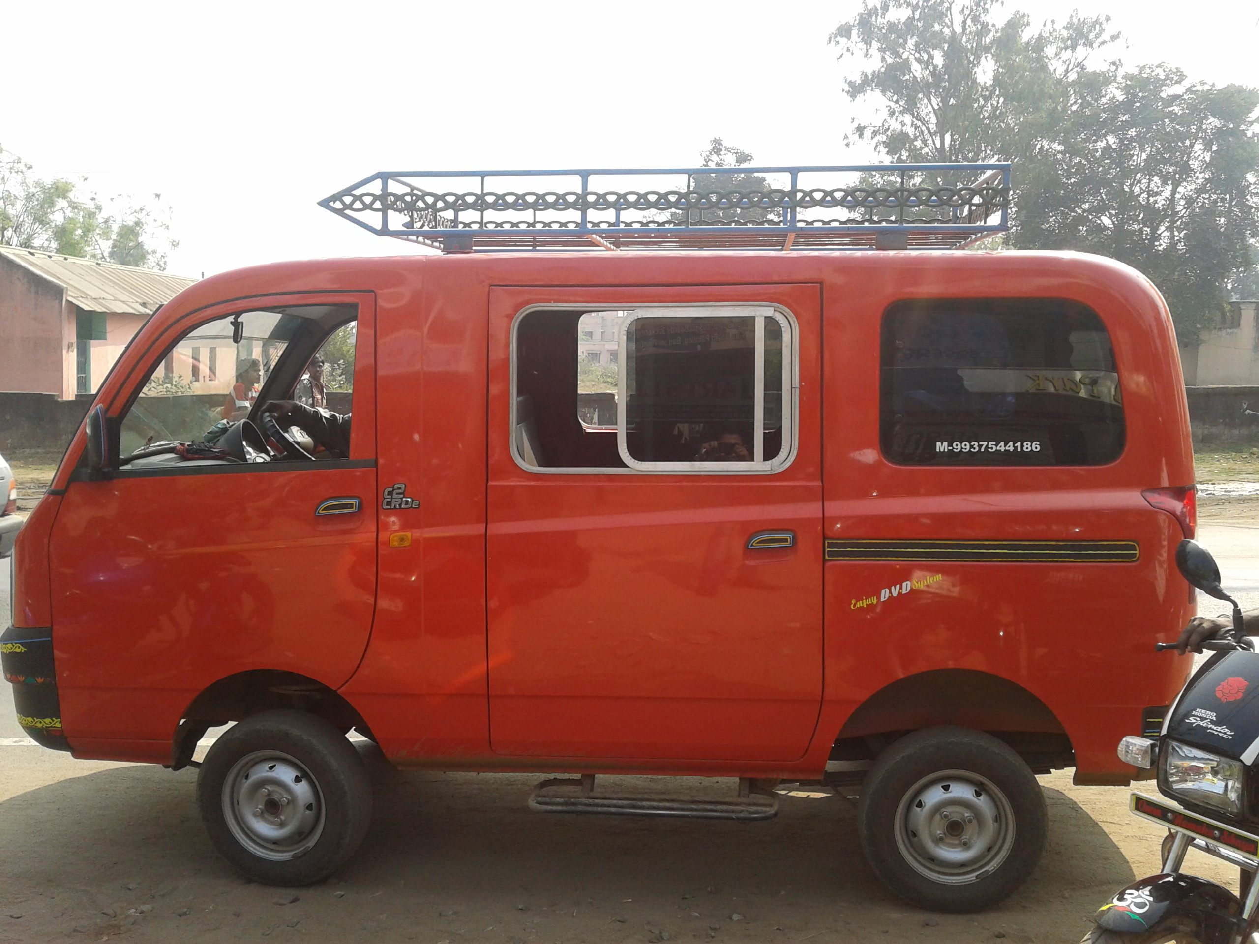 Mahindr Maxximo in Dhenkanal ,Orissa ,[India].